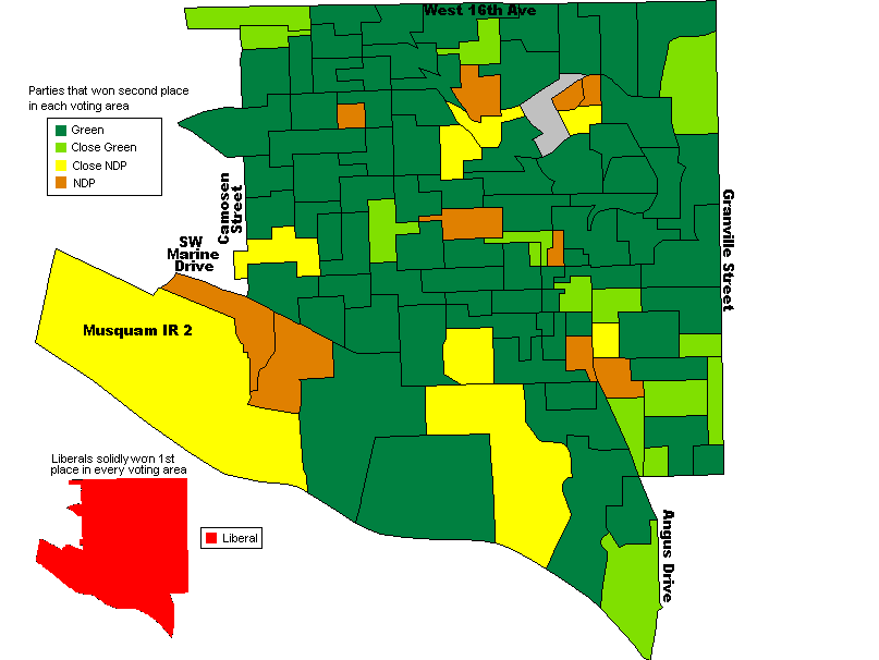 The BC Liberals solidly win every poll. This map shows who won second place in each voting area. The colour shown for each voting area corresponds to the second-most dominant party in that area (received second most votes).